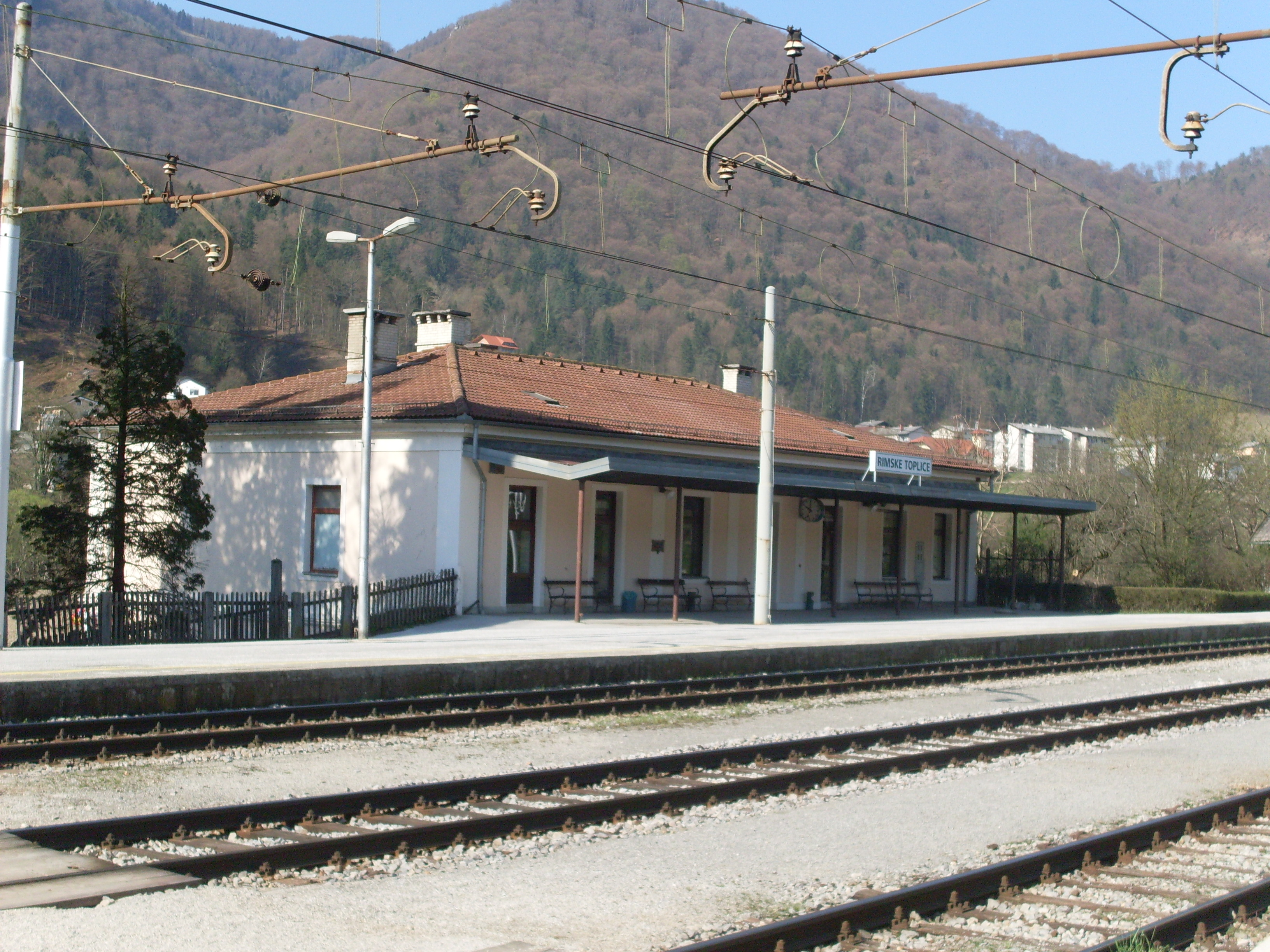 Train station Rimske Toplice, actually located in Globoko (the opposite bank of the Savinja)